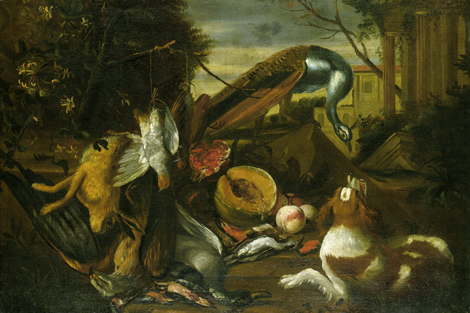 Hunting still life with hunting songbirds and a peacock. Above the dog paw monogrammed "ADG fe" (ligated)